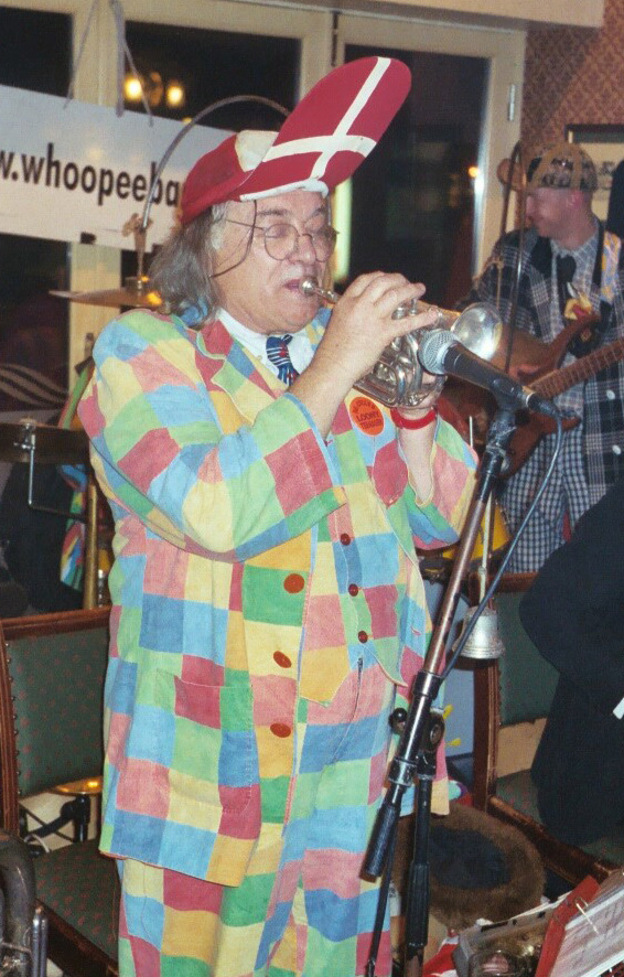 Robert "Bob" Kerr (born 1943), British musician and entertainer, at a live performance in Lund, Sweden.